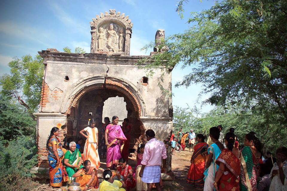 This 200 years old temple was constructed by British office[unknown] as requested by villager of Beeramgunta